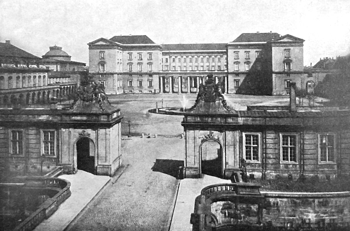 The second Christiansborg Palace before it was ruined by a fire in 1884. View over the show grounds